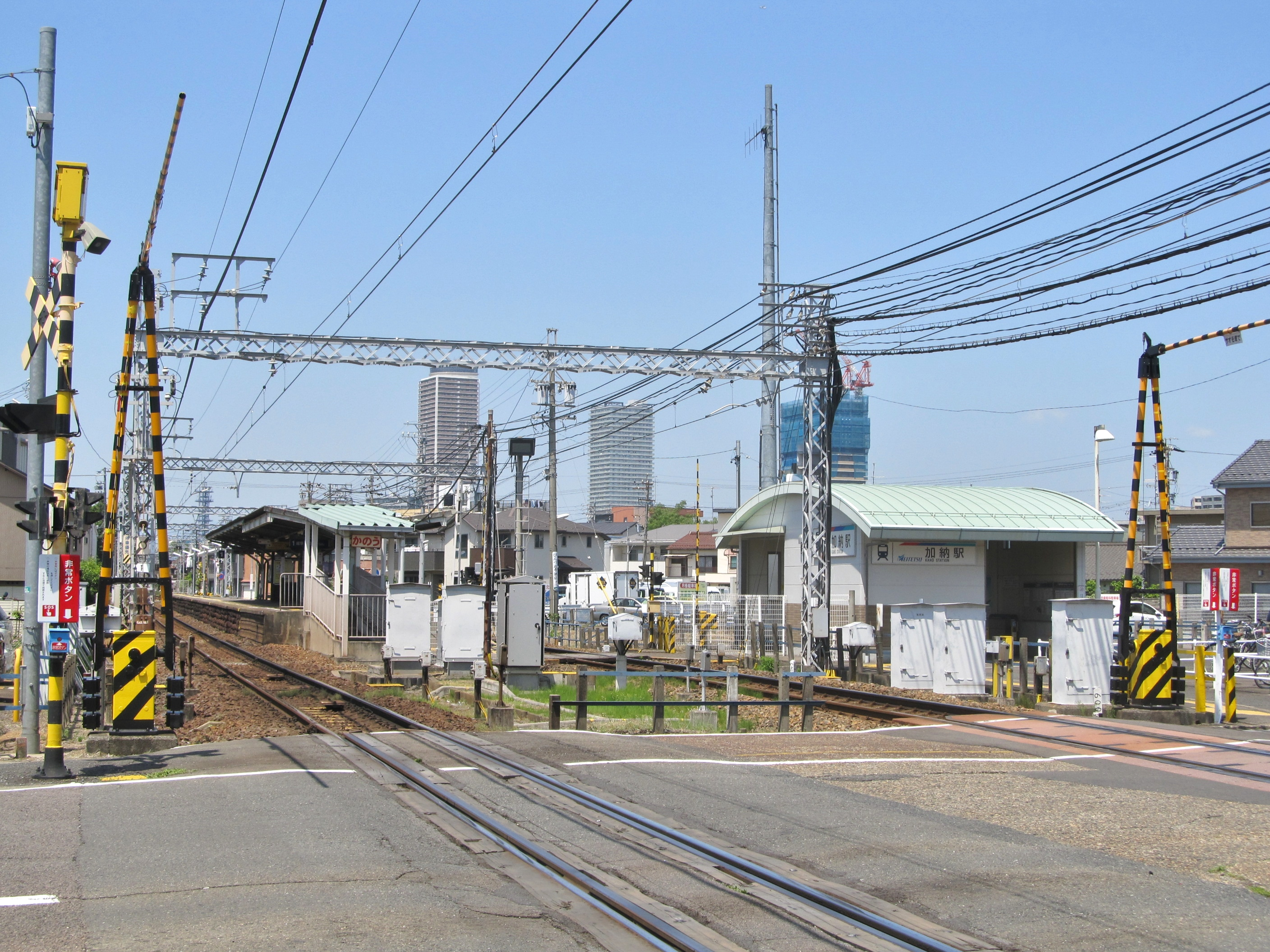 Nagoya Railroad Nagoya Main Line Kanō Station Building